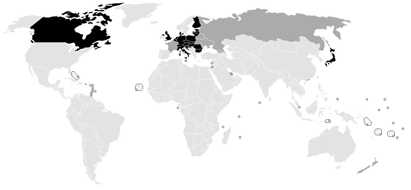 Overview map of states committed to greenhouse gas (GHG) limitations in the first Kyoto Protocol period (2008-2012): Dark grey = Annex I Parties who have agreed to reduce their GHG emissions below 1990 levels. Grey = Annex I Parties who have agreed to cap GHG emissions at 1990 levels. Pale grey = Non-Annex I Parties; Annex I Parties with an emissions cap that allows their GHG emissions to expand above 1990 levels; Annex I Parties who are have not ratified the Kyoto Protocol. EU-countries like Greece, Spain, Ireland and Sweden have not committed themselves to any reduction in the internal-EU distribution agreement, while France have been committed not to expand emissions (0% reduction). Greenland has only committed itself by being represented by Denmark. However Greenland has not committed itself to a reduction to Denmark.